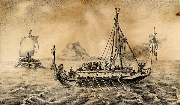 Piraguas piratas de los Joloanos c.1850 A depiction of garay warships used by Sulu pirates.